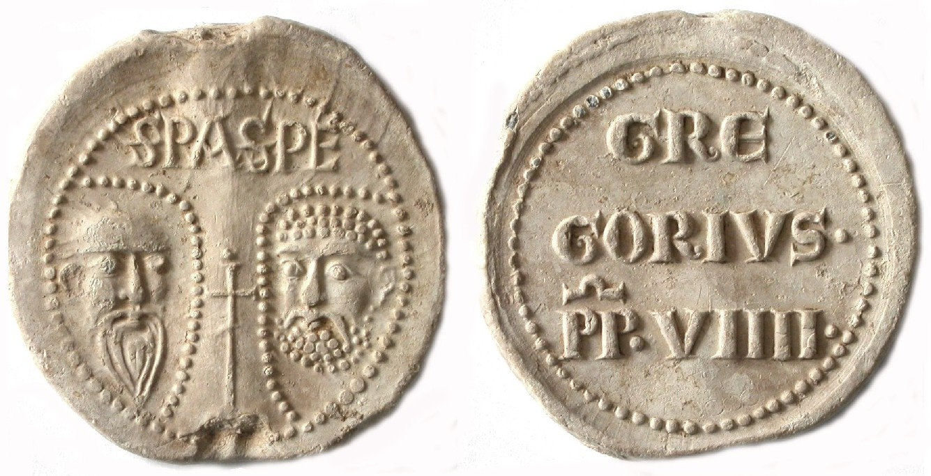 A lead papal bulla issued under Pope Gregory IX (1227-1241). Side 1: SPA SPE (Saints Paul and Peter) Side 2: GRE/GORIUS/PP VIII The bulla is in very fine condition with little sign of either wear or damage.